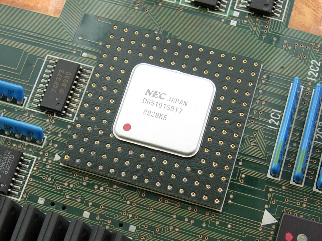 EGC(Enhanced Graphic Charger), graphic accelerator for NEC PC-9801VX and later, which has raster operation, bit shifter and block transfer. Refer to ASCII Dec.1986 page 131, and PC98 Programmer's Bible (ISBN 4874086152).